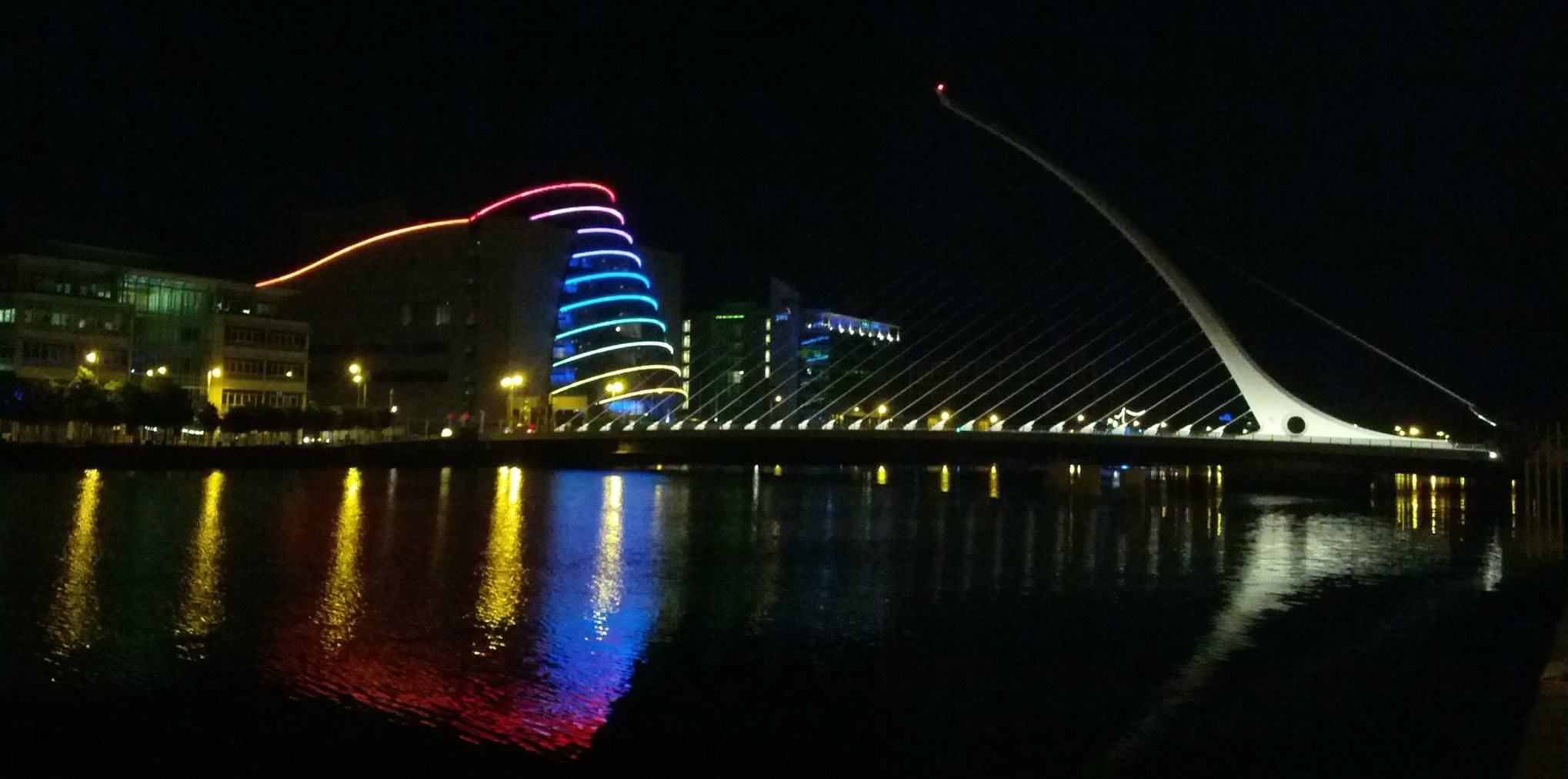 A night photo of the Samuel Beckett Bridge and Convention Centre Dublin, to be used in for articles related to Dublin Docklands